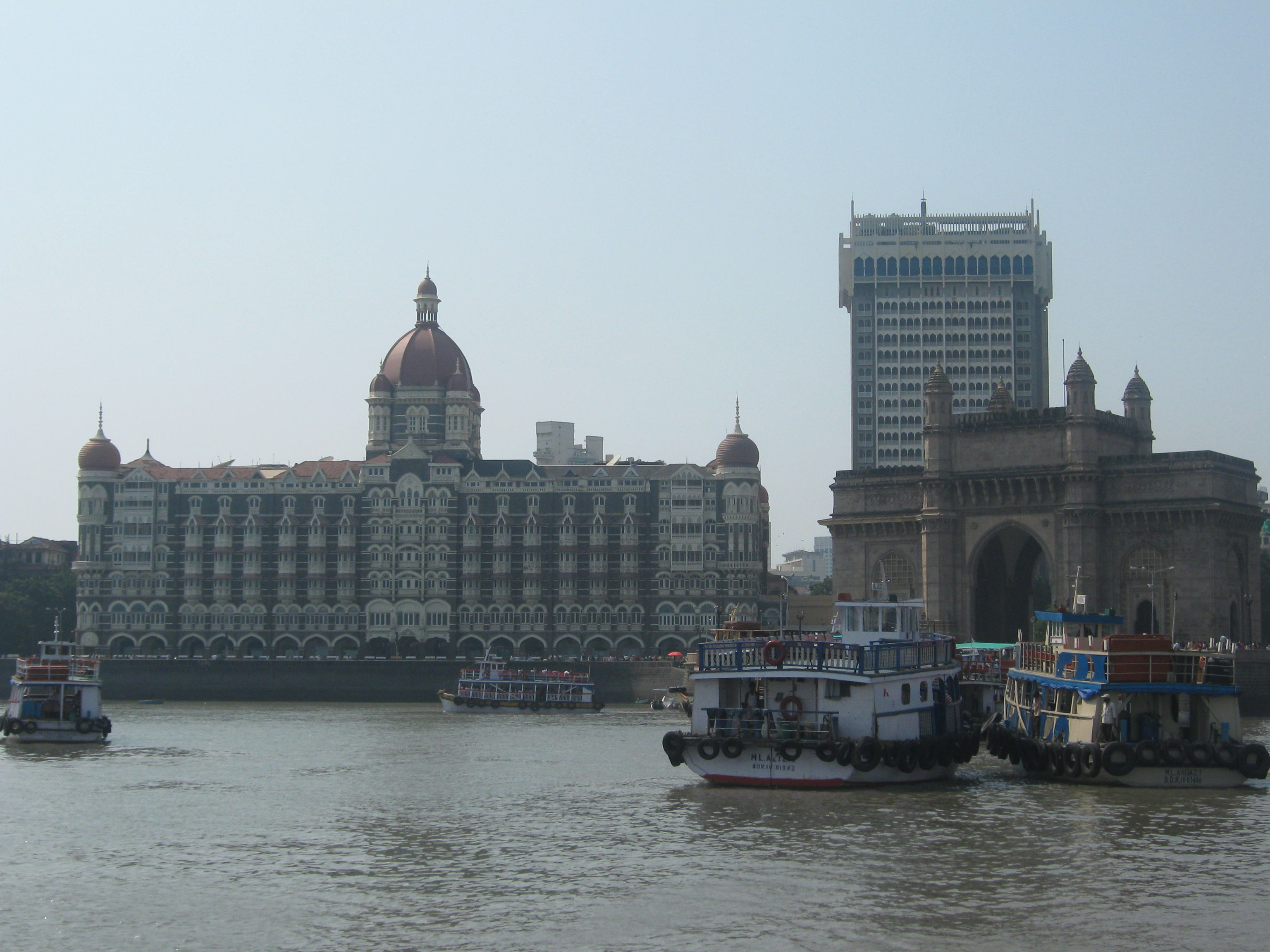 A view of the Taj Mahal Palace & Tower from the Arabian Sea.